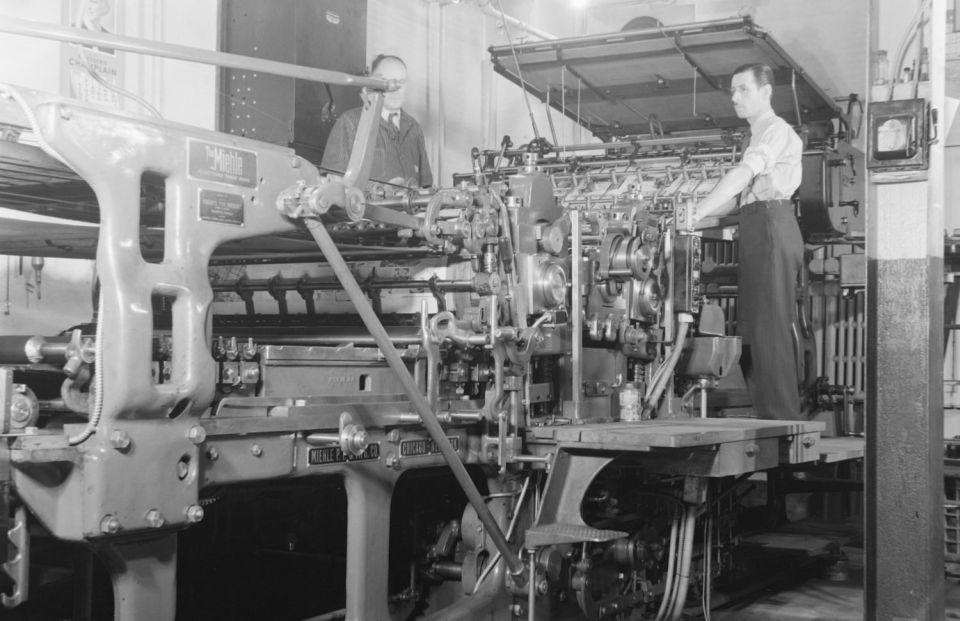 We see a Miehle brand letterpress machine operated by two workers standing on a platform in the newspaper's Saturday, located at 975 rue St-Denis in Montreal.